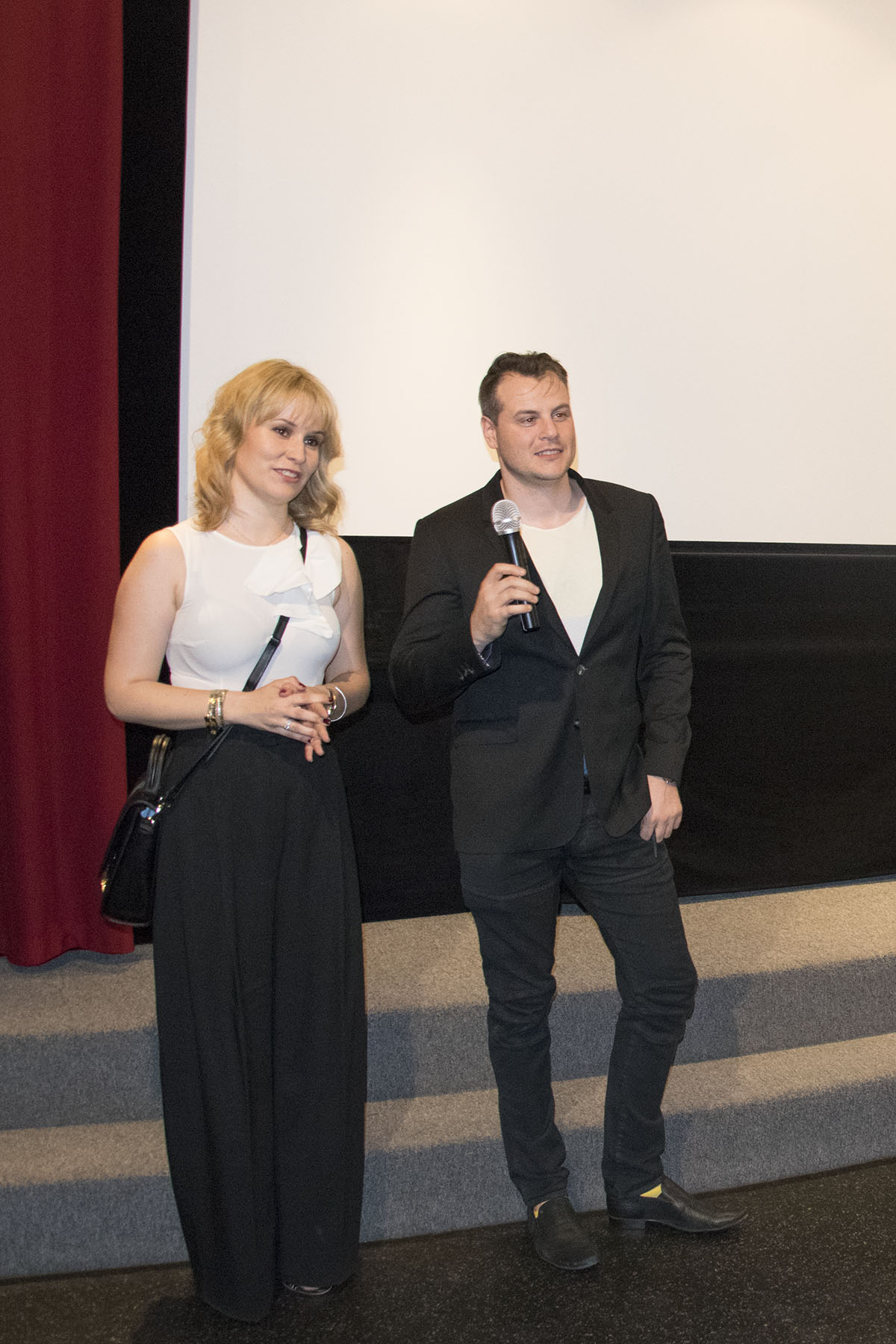 Directors Magdalena Zyzak and Zachary Cotler presenting the film "Maya Dardel" at the Prague Independent Film Festival in August, 2017.